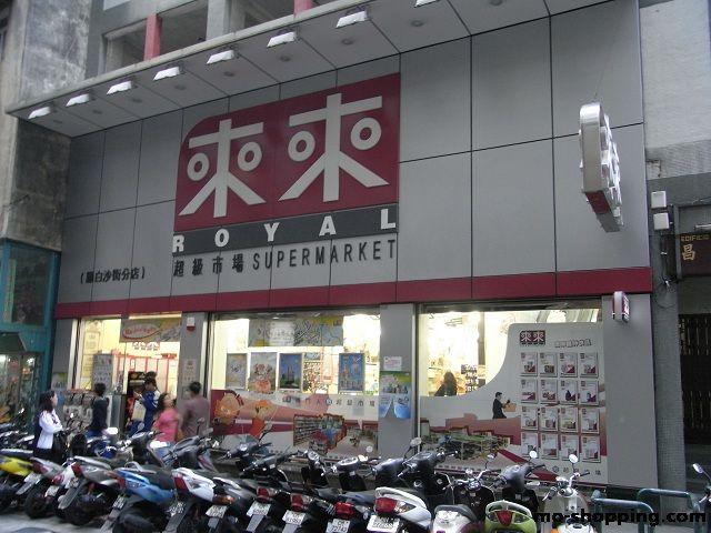 Royal Branch 16